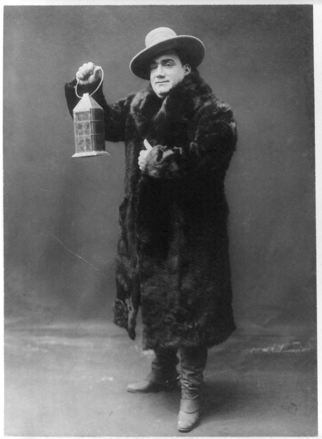 Enrico Caruso, 1873-1921, full-length portrait, standing, facing left, wearing fur coat and holding lantern